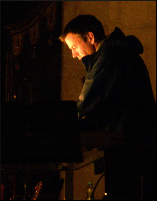 Geir Jenssen performing at Unsound Festival 2009, Cracow, Poland.